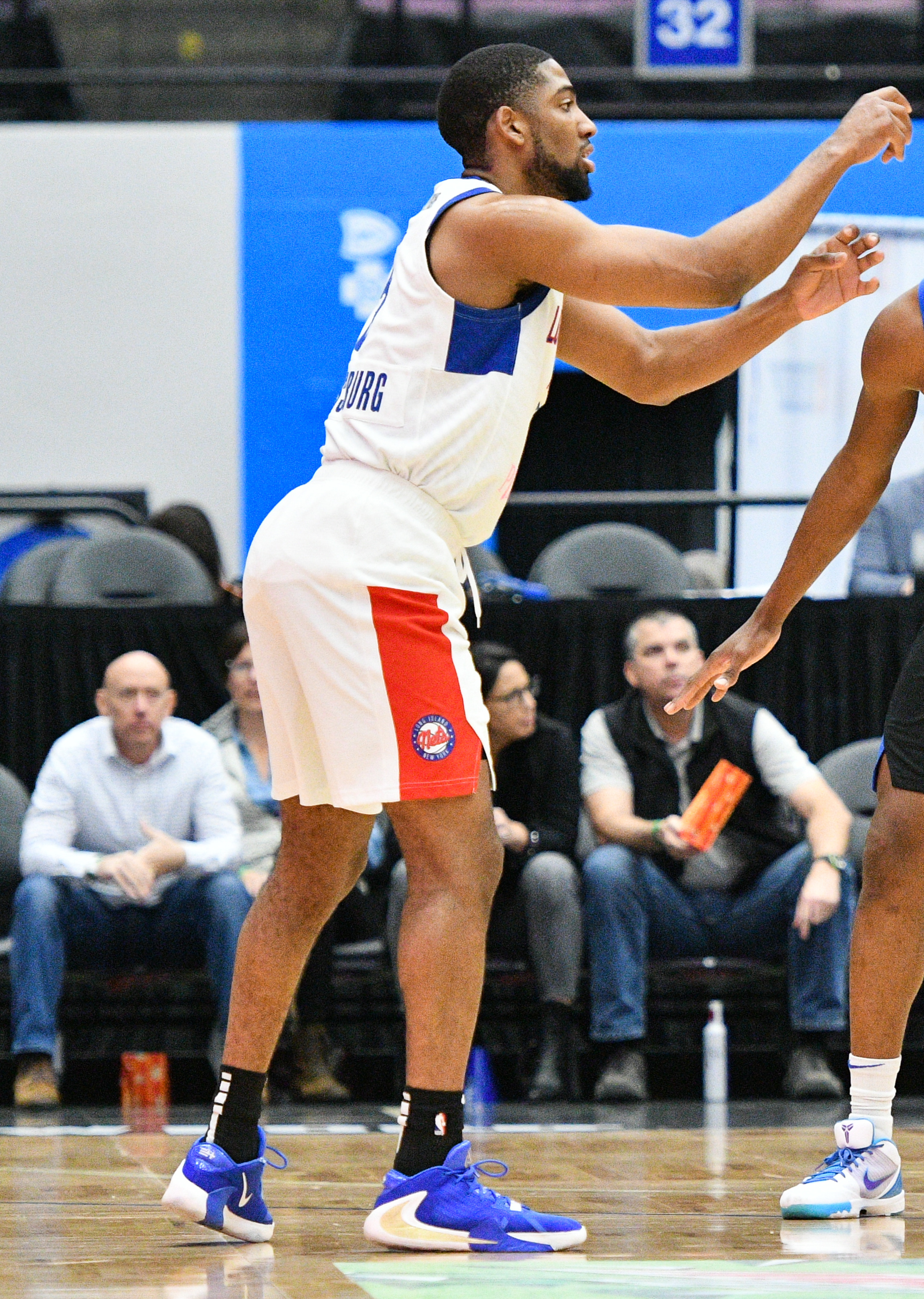 CJ Massinburg, Melvin Frazier. Lakeland Magic vs Long Island Nets. RP Funding Center. Lakeland, Fla. Feb. 21, 2020. (Photo by Tom Hagerty.)